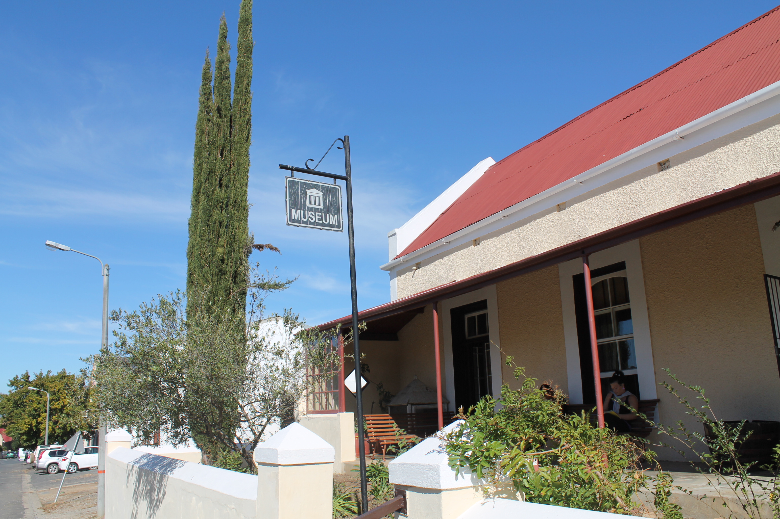 The House, part of the Caledon Museum. 11 Constitution Street, Caledon, Western Cape, South Africa.